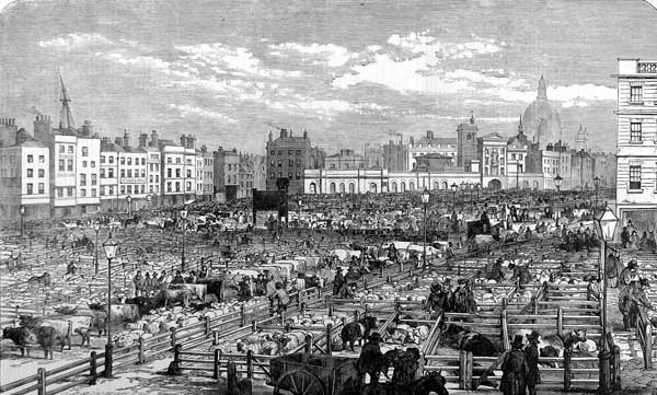 The old open air Smithfield Market in 1855. Illustrated London News 1855.